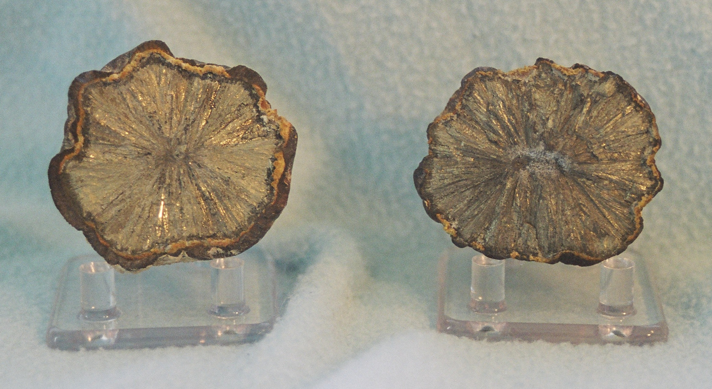 A marcasite geode from my collection, taken by me on 3-13-05. These are two halfs of one geode which came from France. They are showing a little corrosion (the yellow around the edge and white in the center of right half) I gently clean them with a wire brush from time to time. Such cleaning doesn't upset the structure, but makes it so the two halfs don't quite fit together. This material can be crumbly.